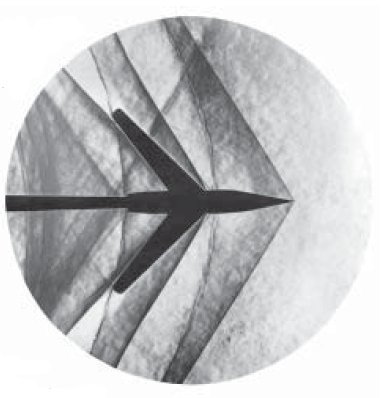 Schlieren photography of an airplane model with swept wings, at Mach 1.2 .